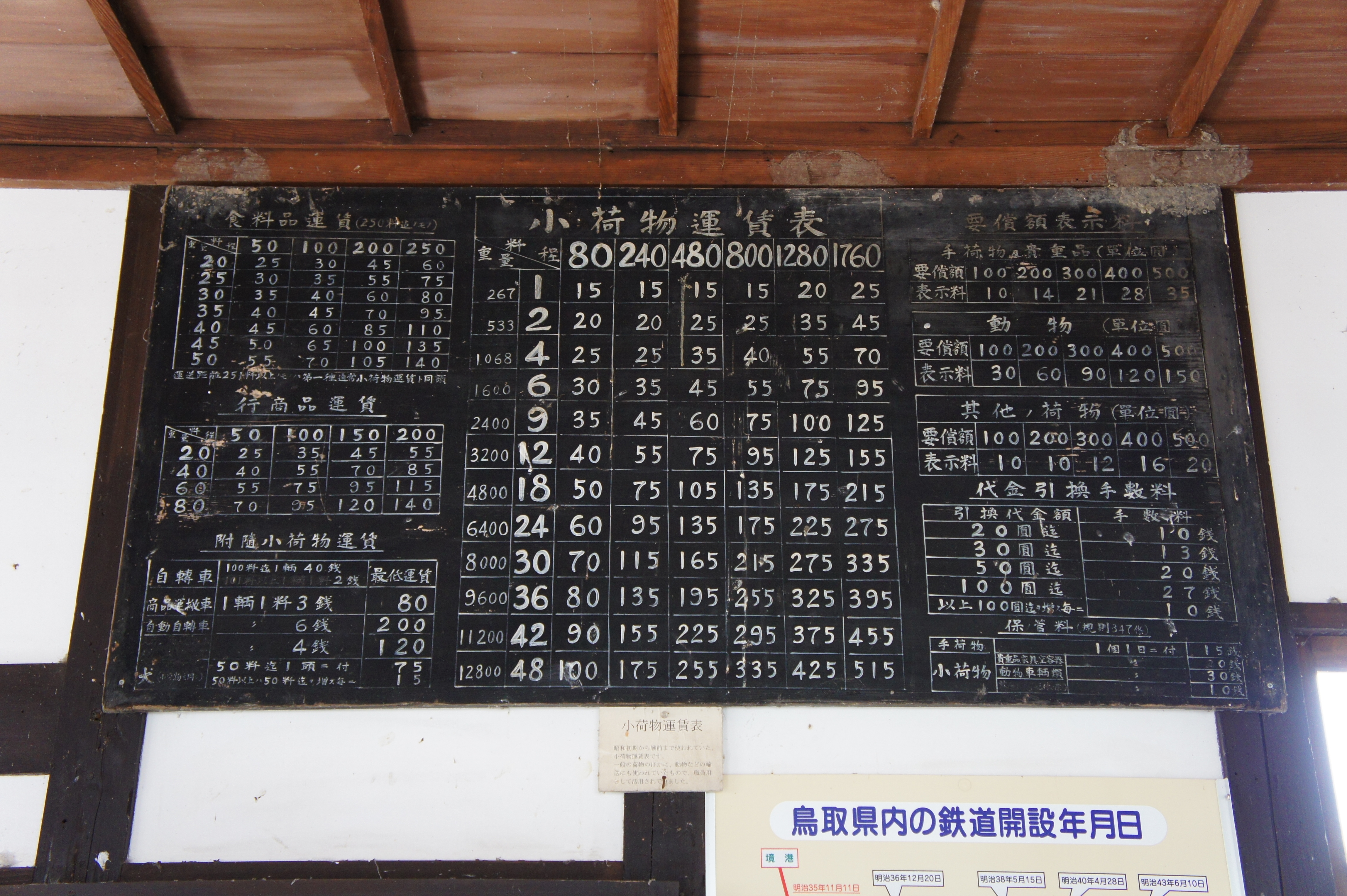 Parcel fare table which displayed in Mikuriya Station of San'in Main Line.